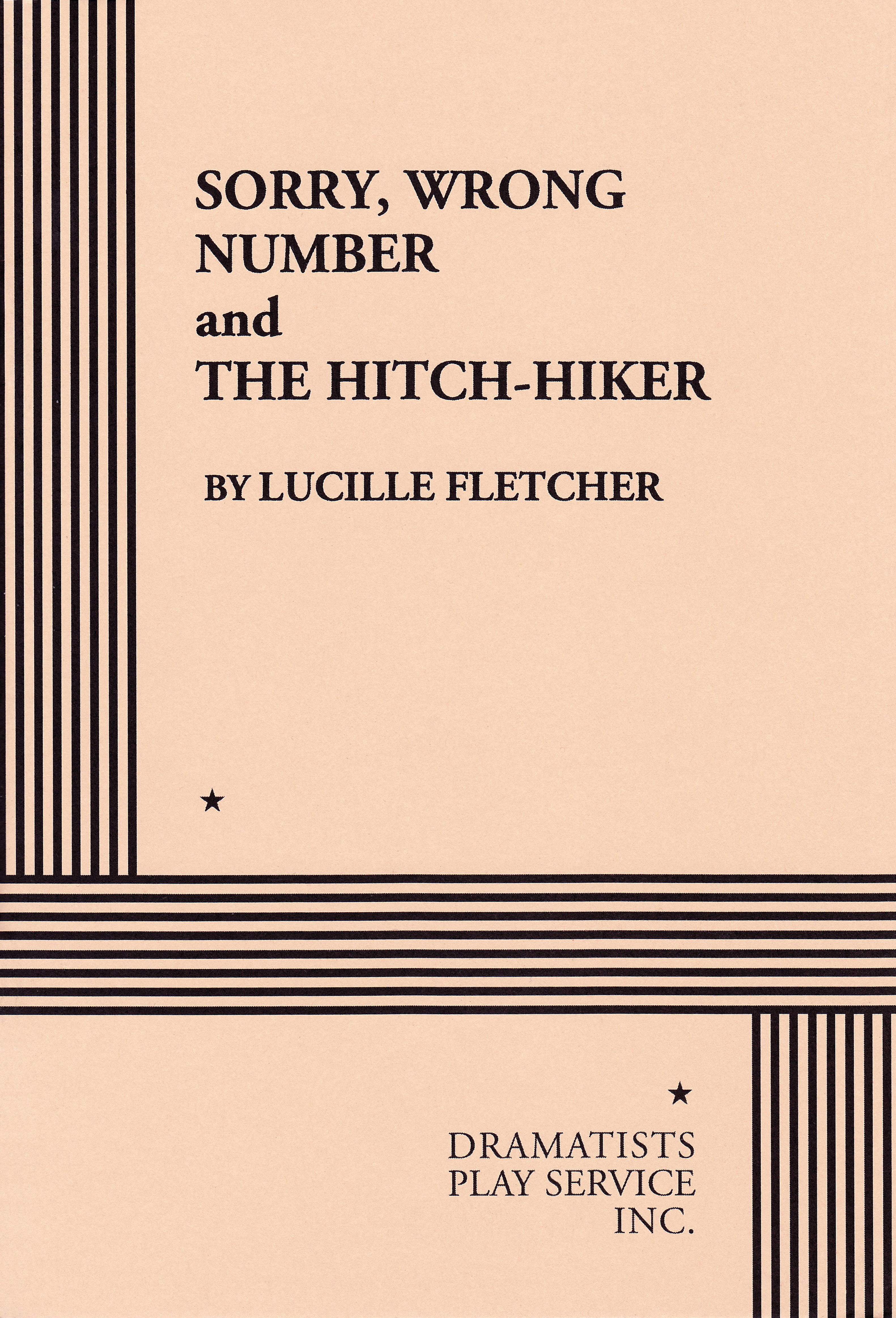 Front cover of Sorry, Wrong Number and The Hitch-Hiker by Lucille Fletcher, two one-act plays adapted from Fletcher's radio plays, for radio or stage presentation The Hitch-Hiker was first presented November 17, 1941, on the Orson Welles Show Sorry, Wrong Number originally aired on the Suspense radio program on May 25, 1943